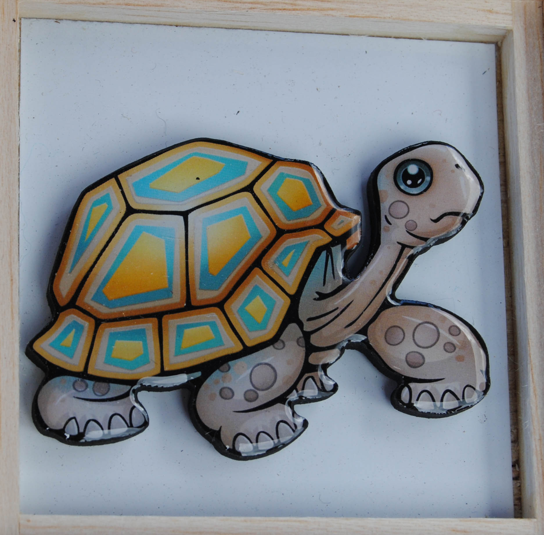 Sold at the market in Otavalo, this image depicts the last Pinta Island tortoise, known as Lonesome George